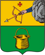 Kotelnich (Kirov oblast), coat of arms (1781)